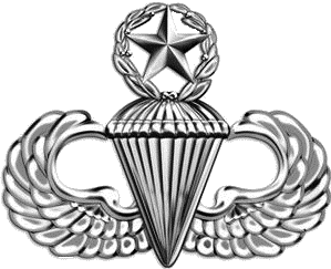 U.S. Military's Master Parachutist Badge